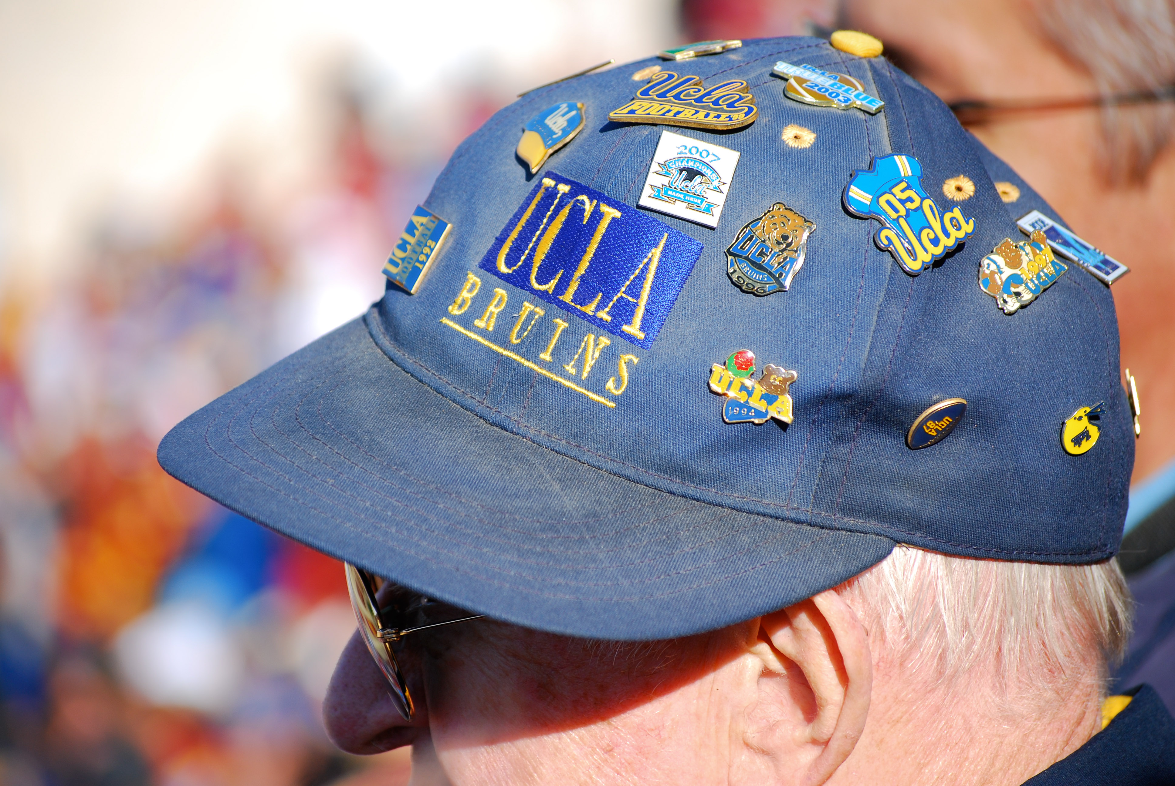 UCLA pins on baseball cap